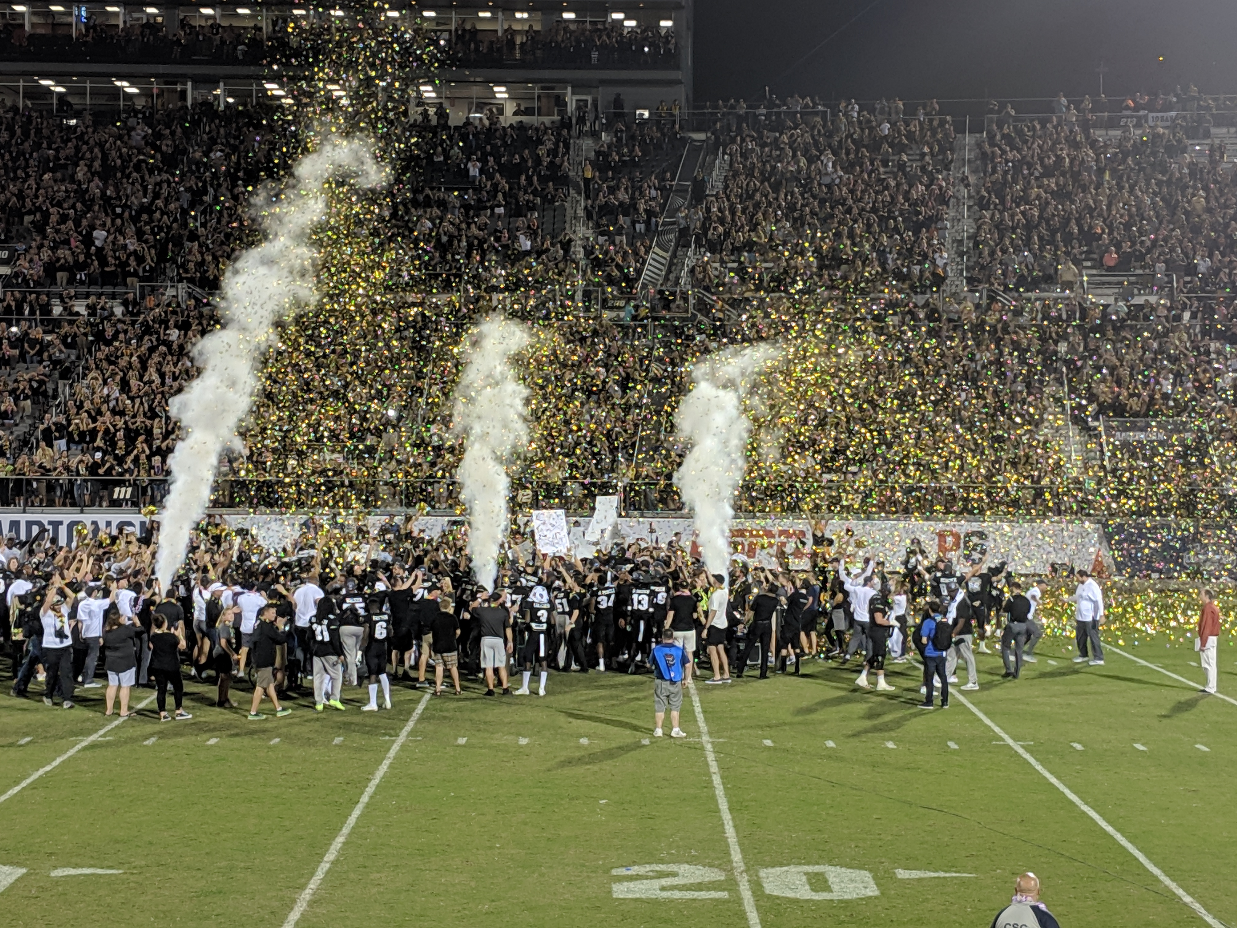 2018 American Athletic Conference Championship Trophy Presentation